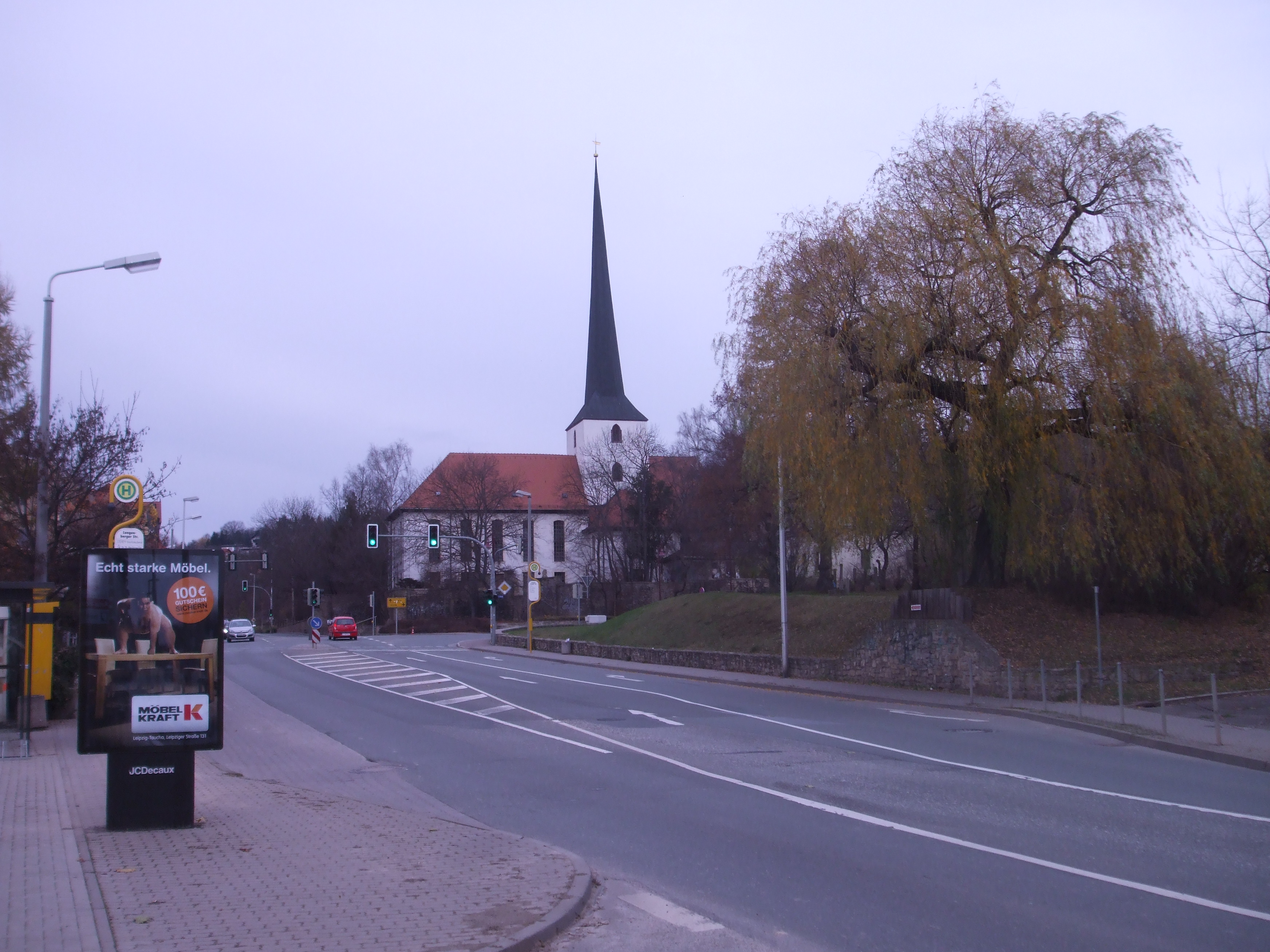 In the centre of the district of Langenberg, Gera, Germany